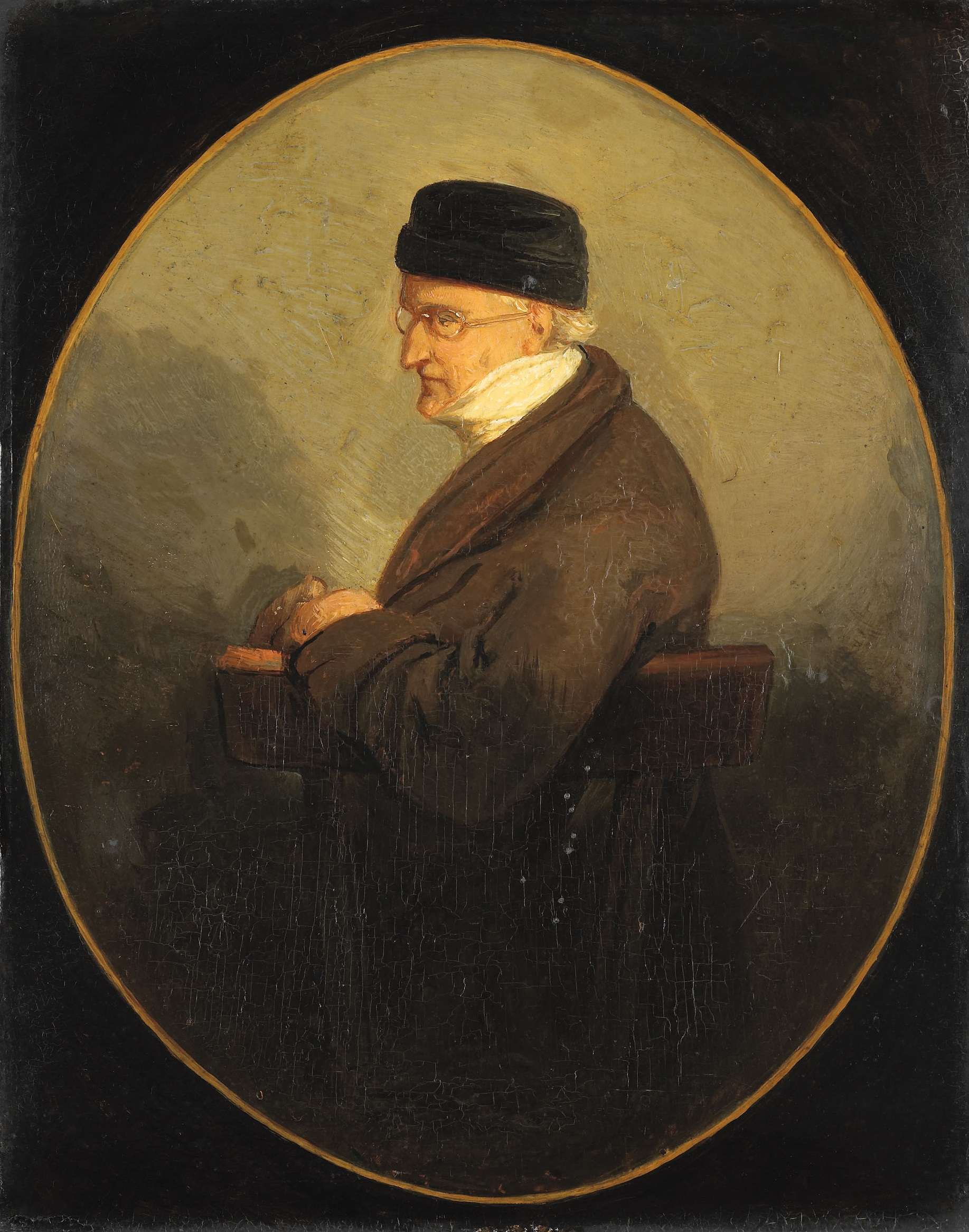 Portrait of David Pièrre Giottino Humbert de Superville, painter and writer. Sitting in a chair, wearing a black hat.